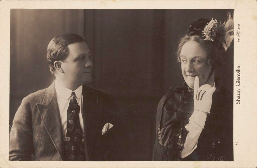 Postcard of the actor Shaun Glenville as himself and in character as a pantomime dame